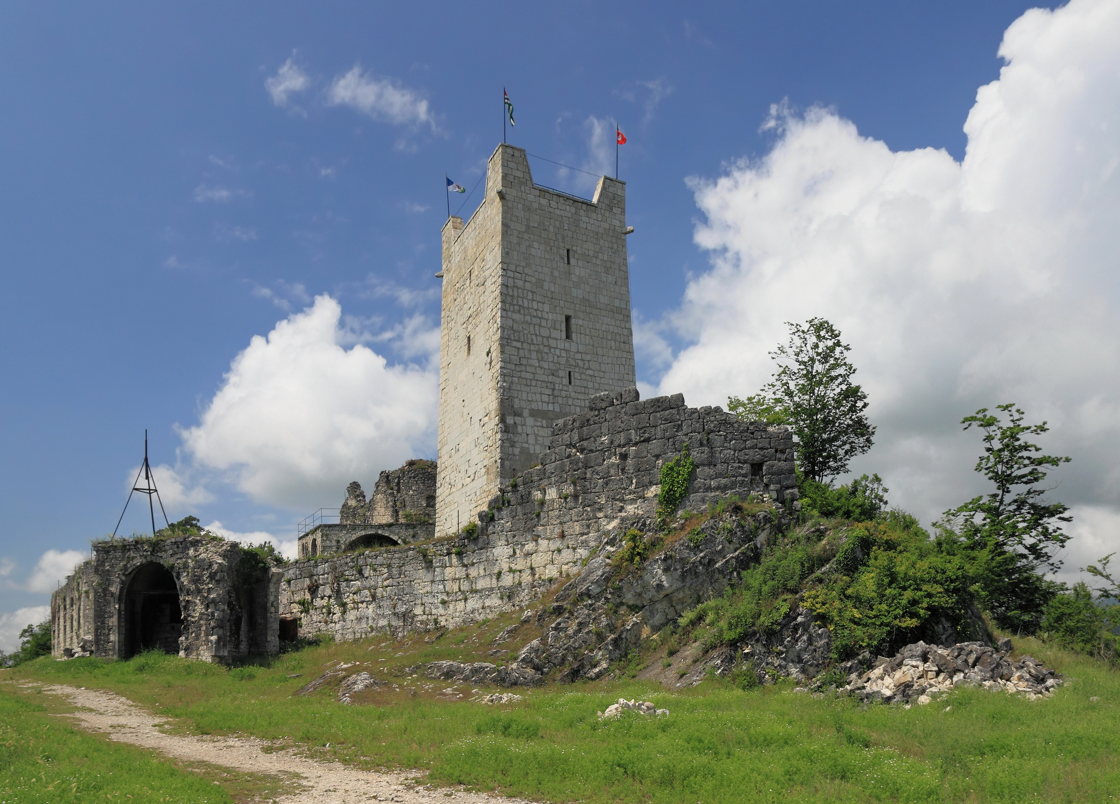 Anacopia fortress. New Athos, Gudauta District, Abkhazia.